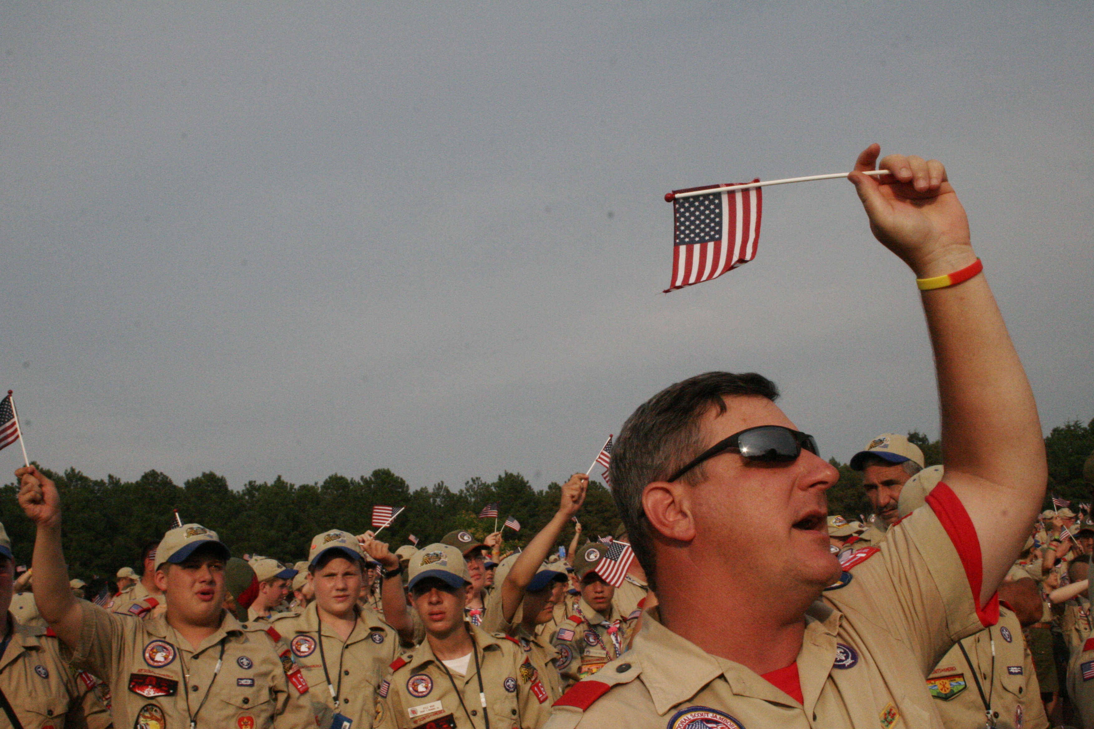 A scoutmaster waves a USA flag at the 2006 National Scout Jamborree